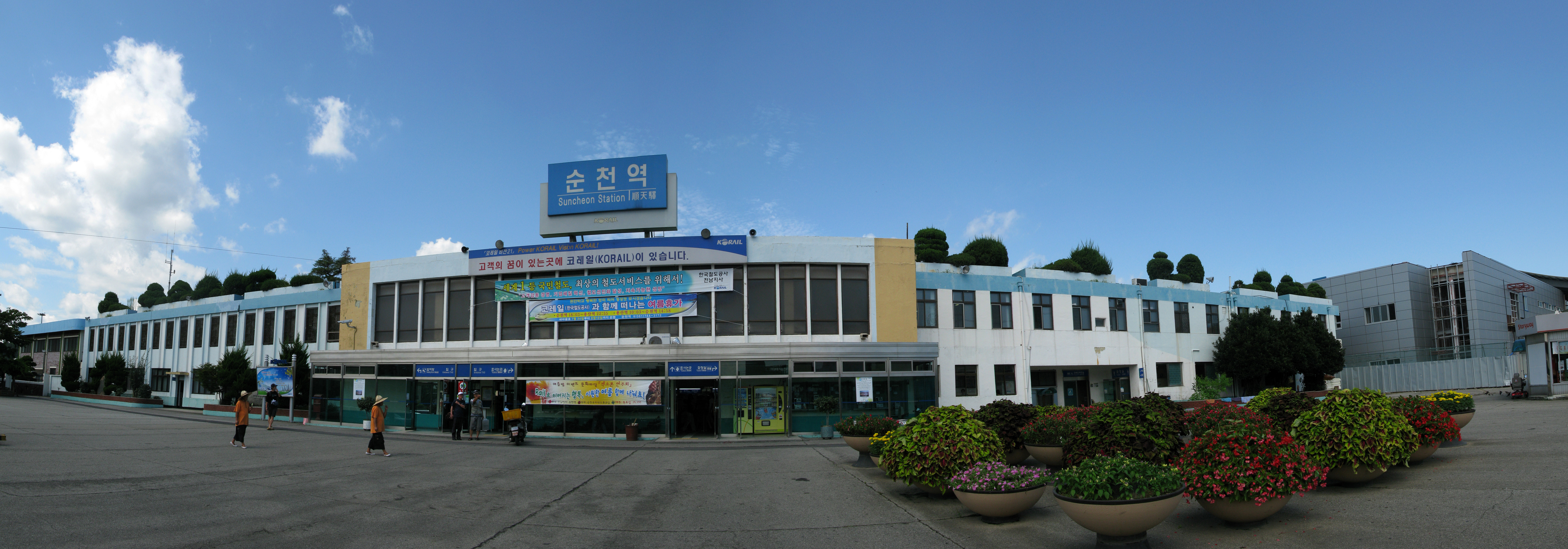 Jeolla, Gyeongjeon Line Suncheon Station